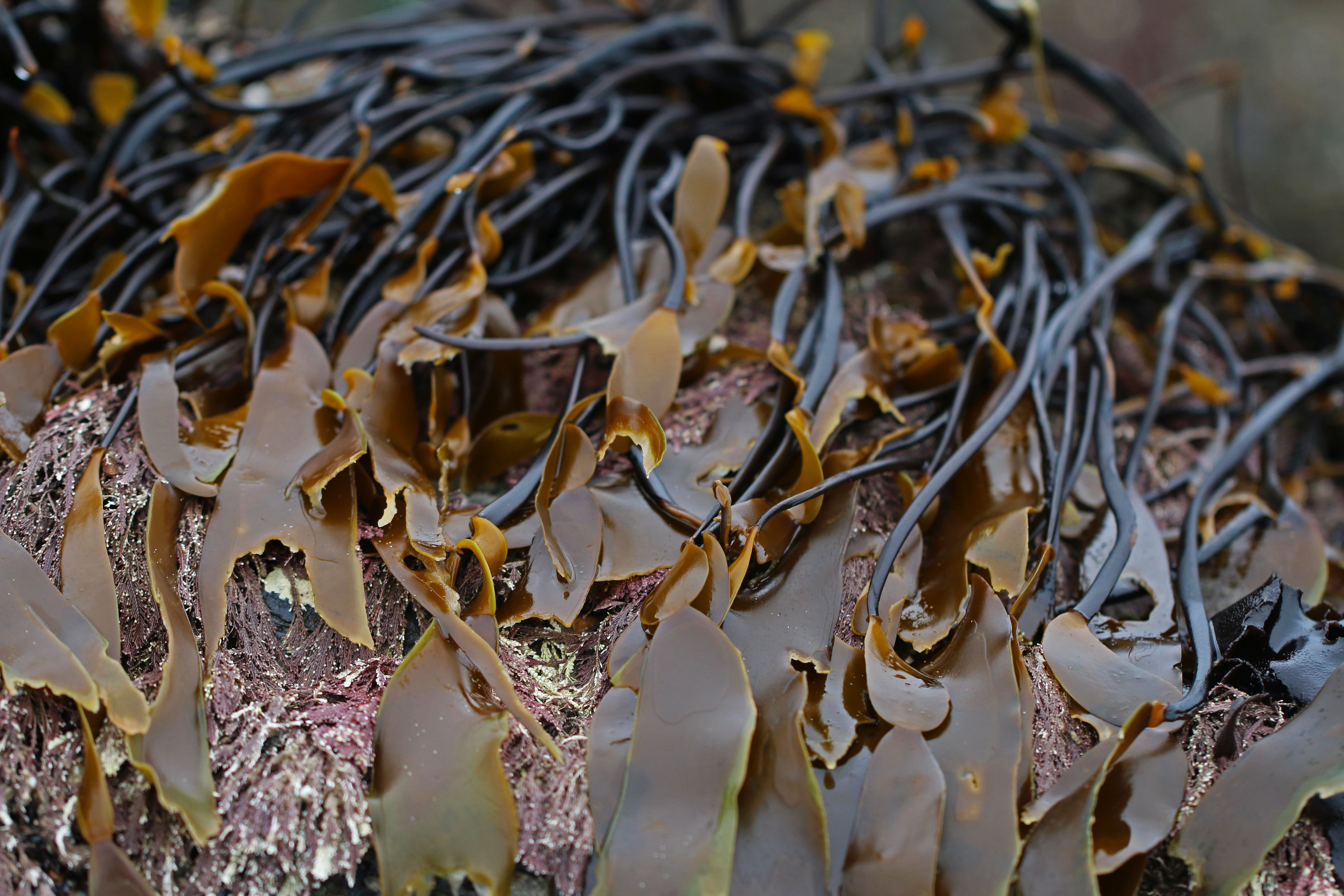 Stiff-stiped kelp (Laminaria sinclairii) You are free to use this image with the following photo credit: Peter Pearsall/U.S. Fish and Wildlife Service